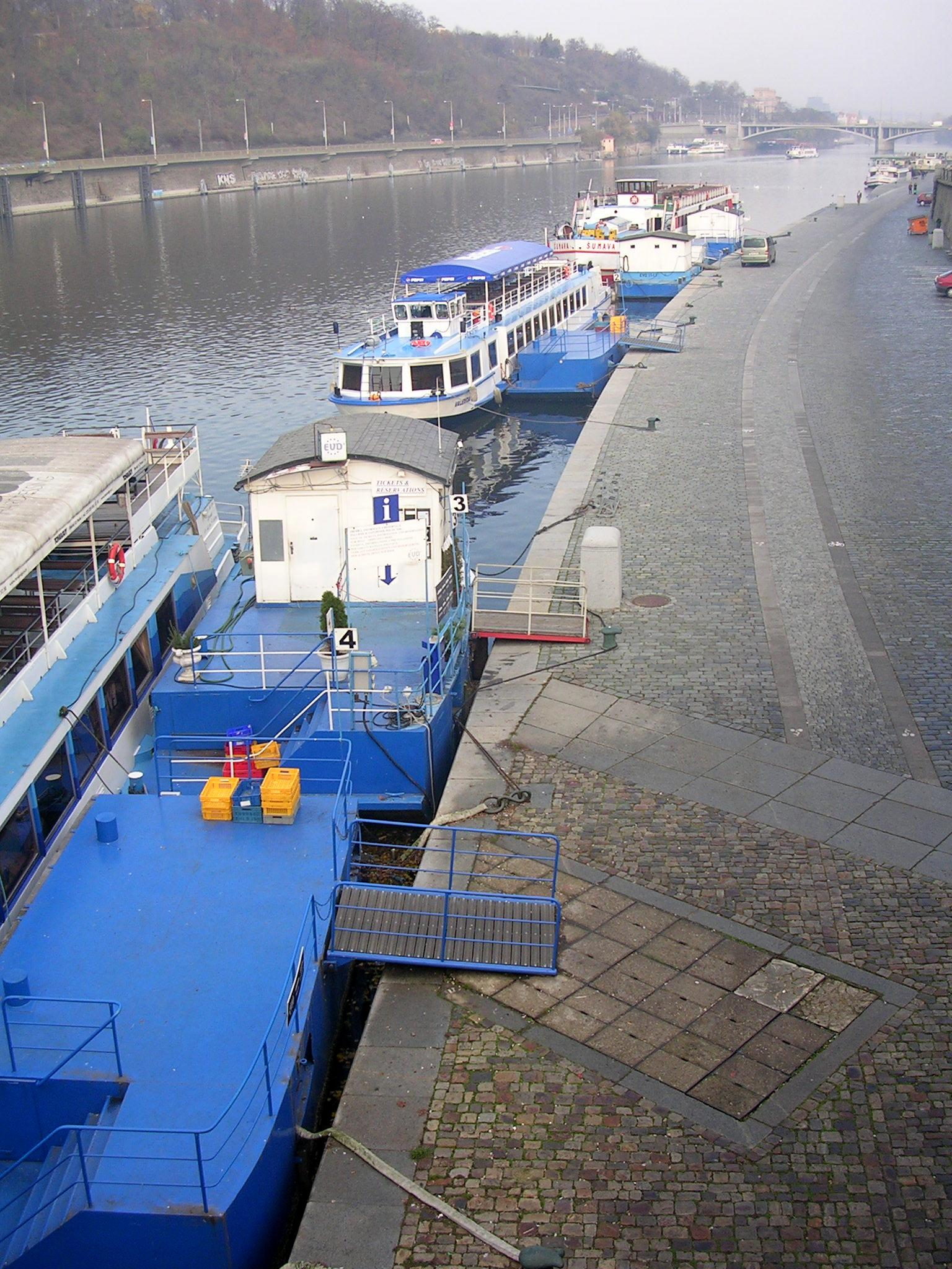 Prague. - OpenStreetMap(Info)